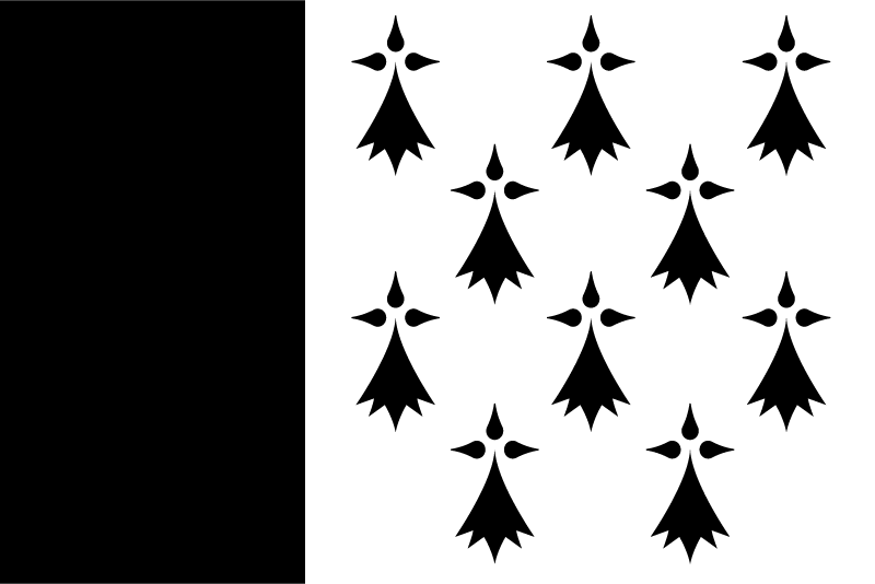 Flag of Rennes Country (Brittany)